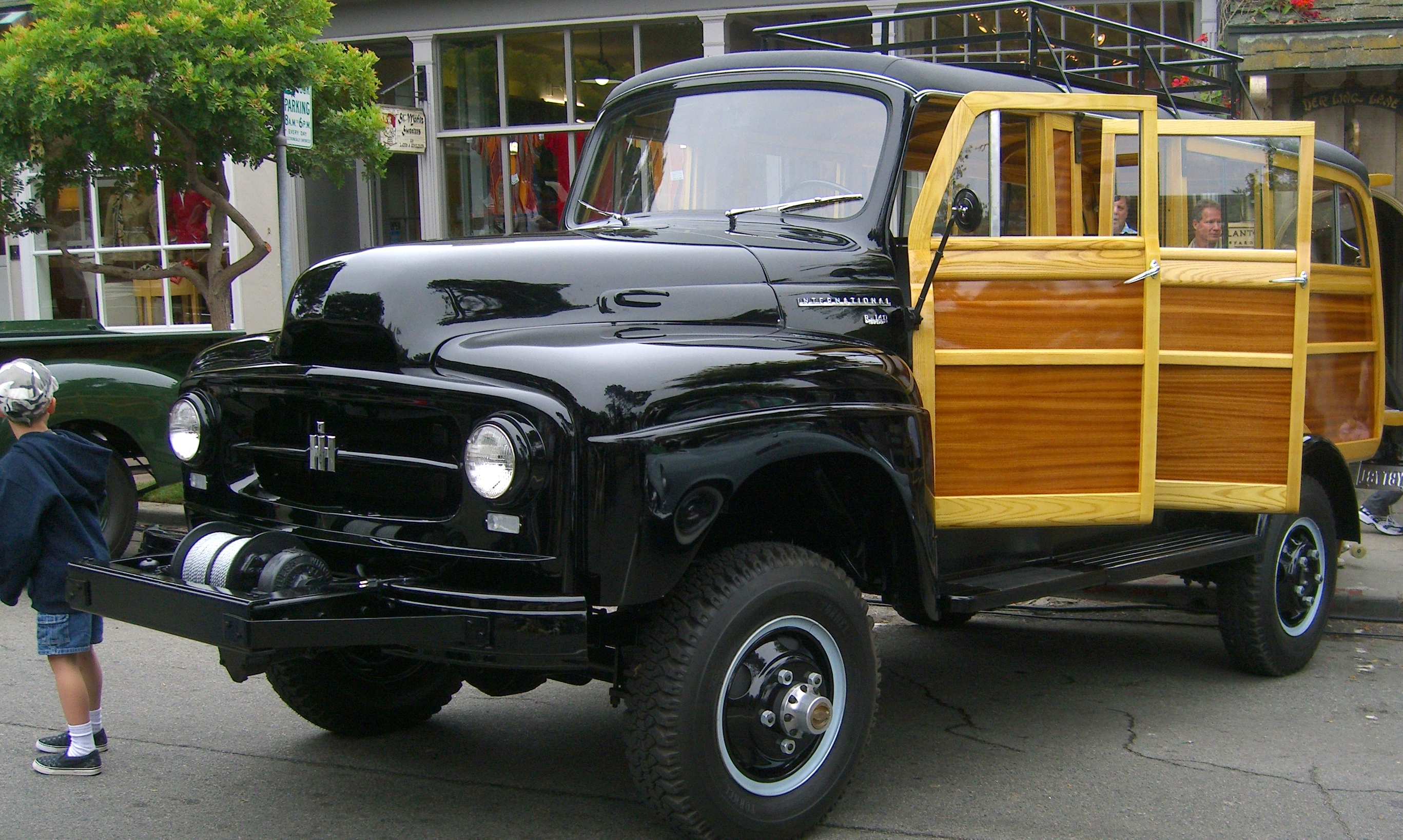 1954 International Harvester R-140 half-ton wagon owned by Gary Cox of Corona Del Mar, California, who says it was originally "custom-built for National Geographic expedition work" and that it is one of three made. He says it was "discovered" in 2004 in a "Montana barn" after "half a lifetime hauling logs." Now "restored."